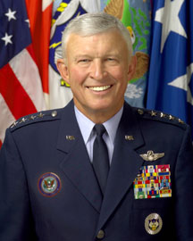 General Ralph E. Eberhart, USAF, commander U.S. Northern Command (2002-2004)